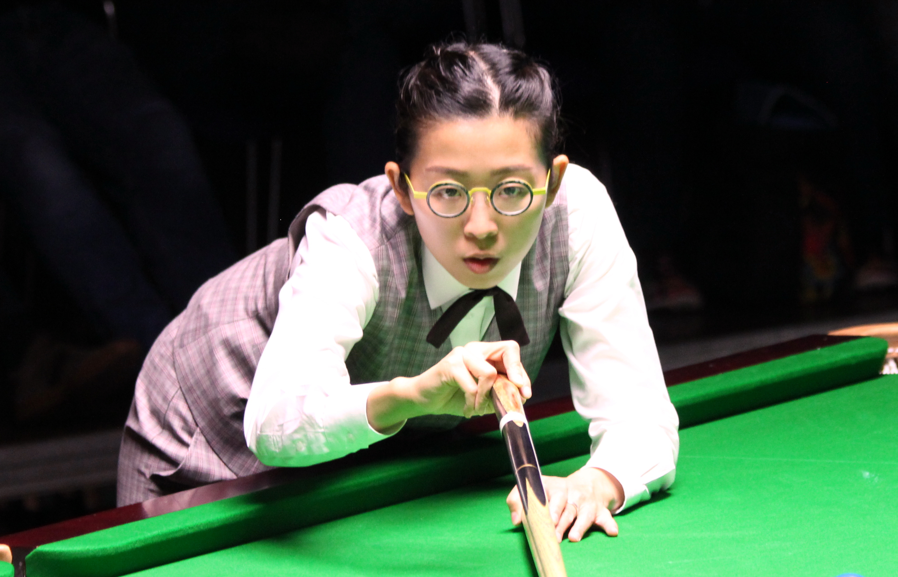 Ng On Yee at the Paul Hunter Classic 2017